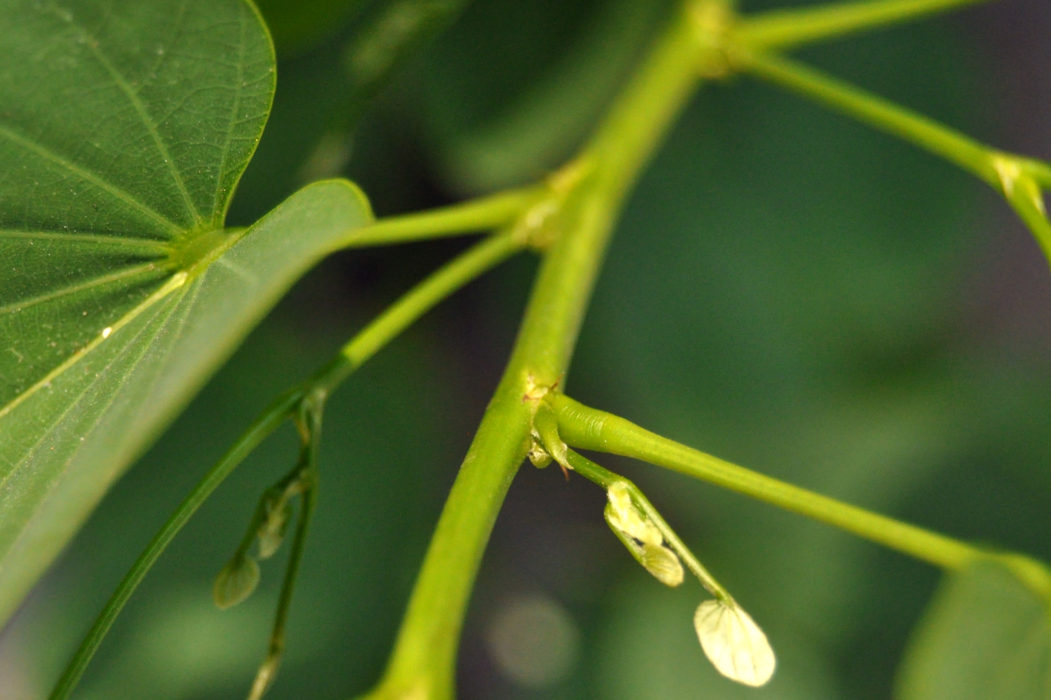 Leaf base of Bauhinia purpurea swollen, a shape known as pulvinus. Bogor, West Java, Indonesia.